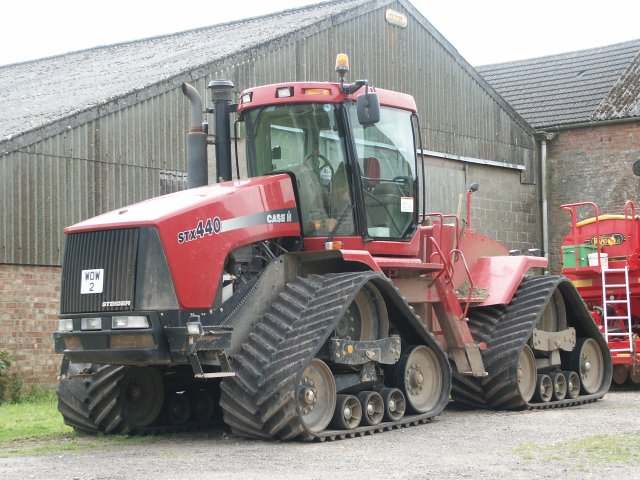 WOW - It's Davy's Topyard. Farm buildings near Tathwell